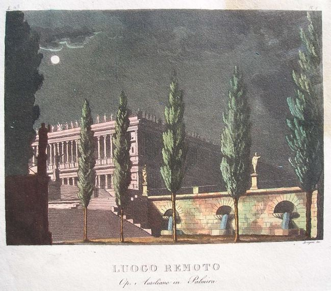 A stage setting for Act II of Aureliano in Palmira. Aquatint and watercolour. Artist: Paolo Landriani (1755 - 1839) Engraver/Publisher: Stanislao Stucchi Source: Archivi di Teatro Napoli